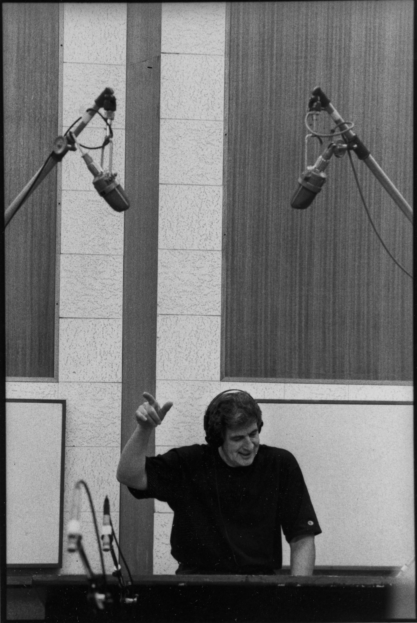 Dale Oehler conducting at string session in mid 1990s